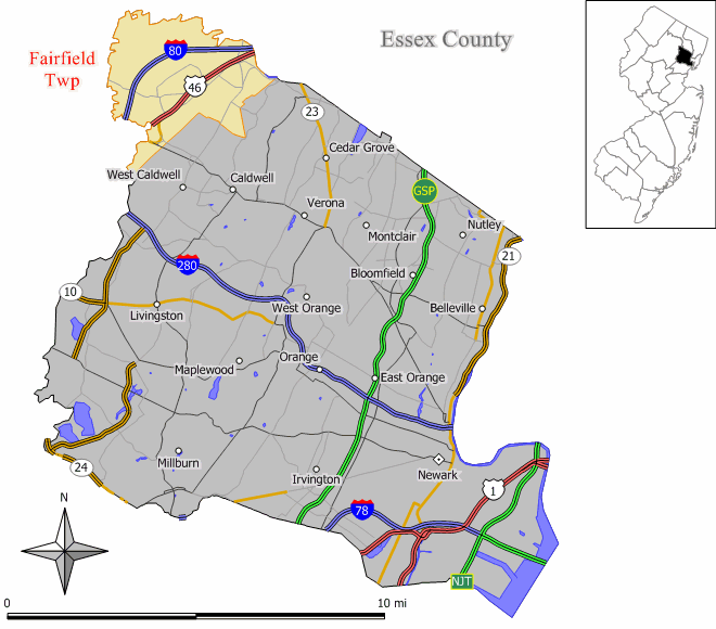 Source: Jim Irwin Original work by Jim Irwin, December 2005.